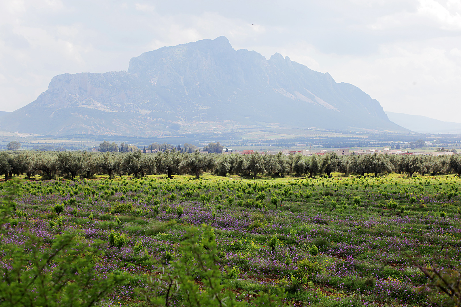 View on the Djebel Ressas from the Mornag plain